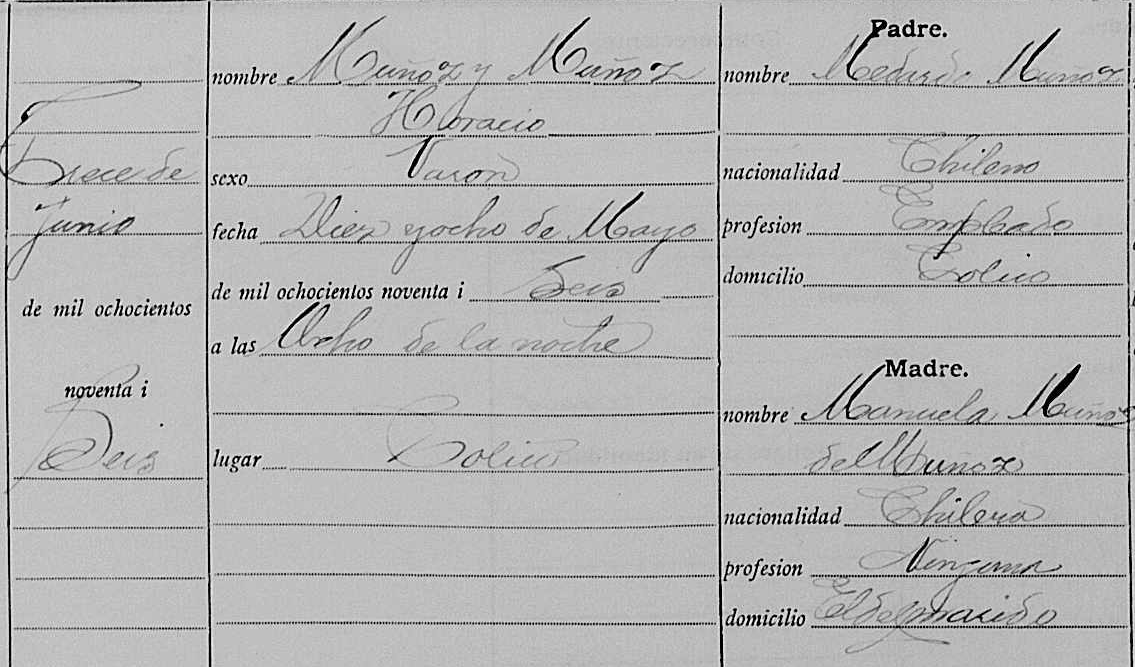 Birth record of Horacio Muñoz, May 18, 1896.